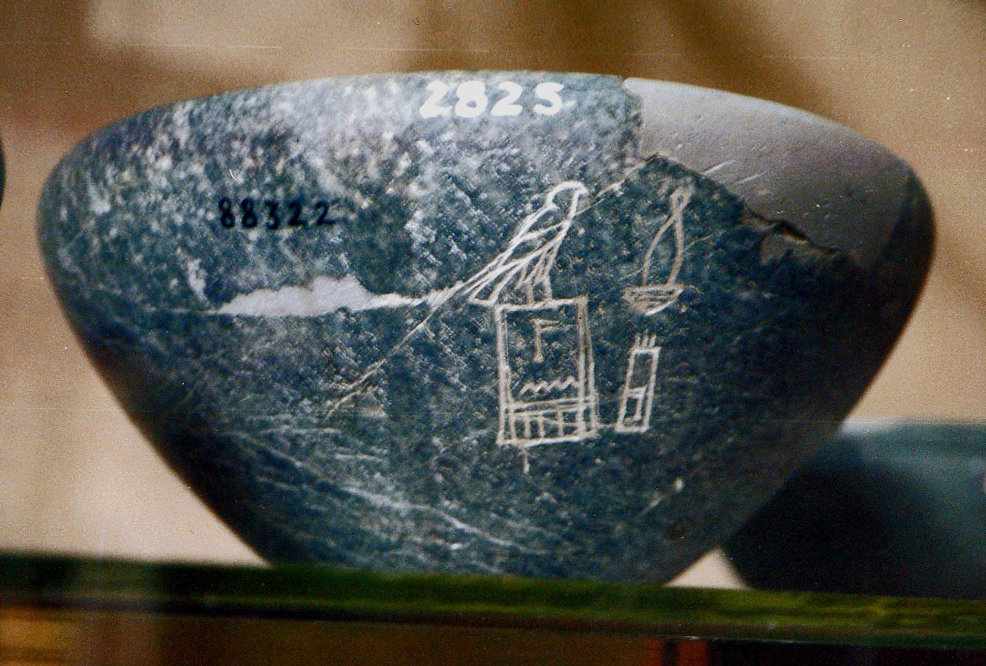 Diorite vase of Nynetjer bearing the king's name and mentioning a palace of the king in Upper Egypt. Provenance: Saqqara. Djoser's Step Pyramid. Gallery B, Dimensions: Height 0.112 m., Diameter 0.24 m. Conservation: Cairo. Egyptian Museum, JE 88322 (2825)